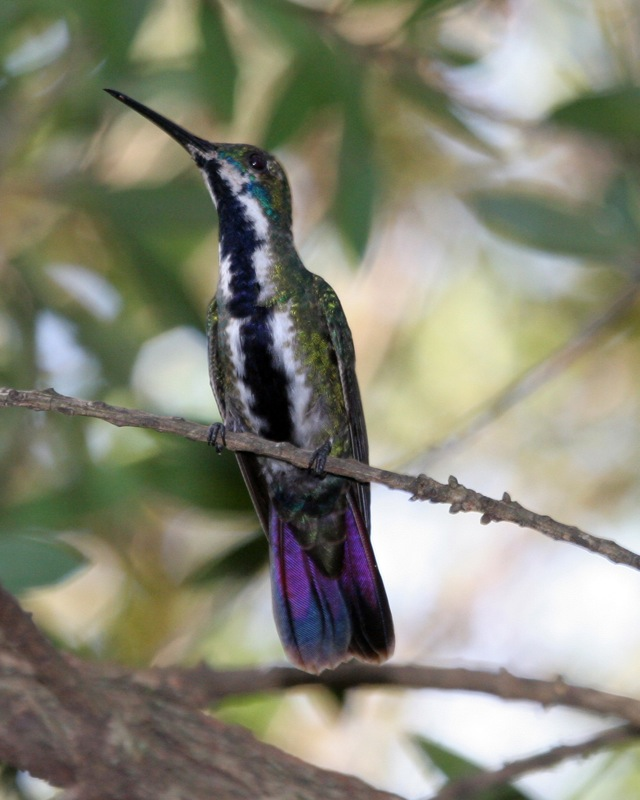 Black-throated mango hummingbird (Anthracothorax nigricollis) from Iguasu Falls, Argentina 4th. April 2006